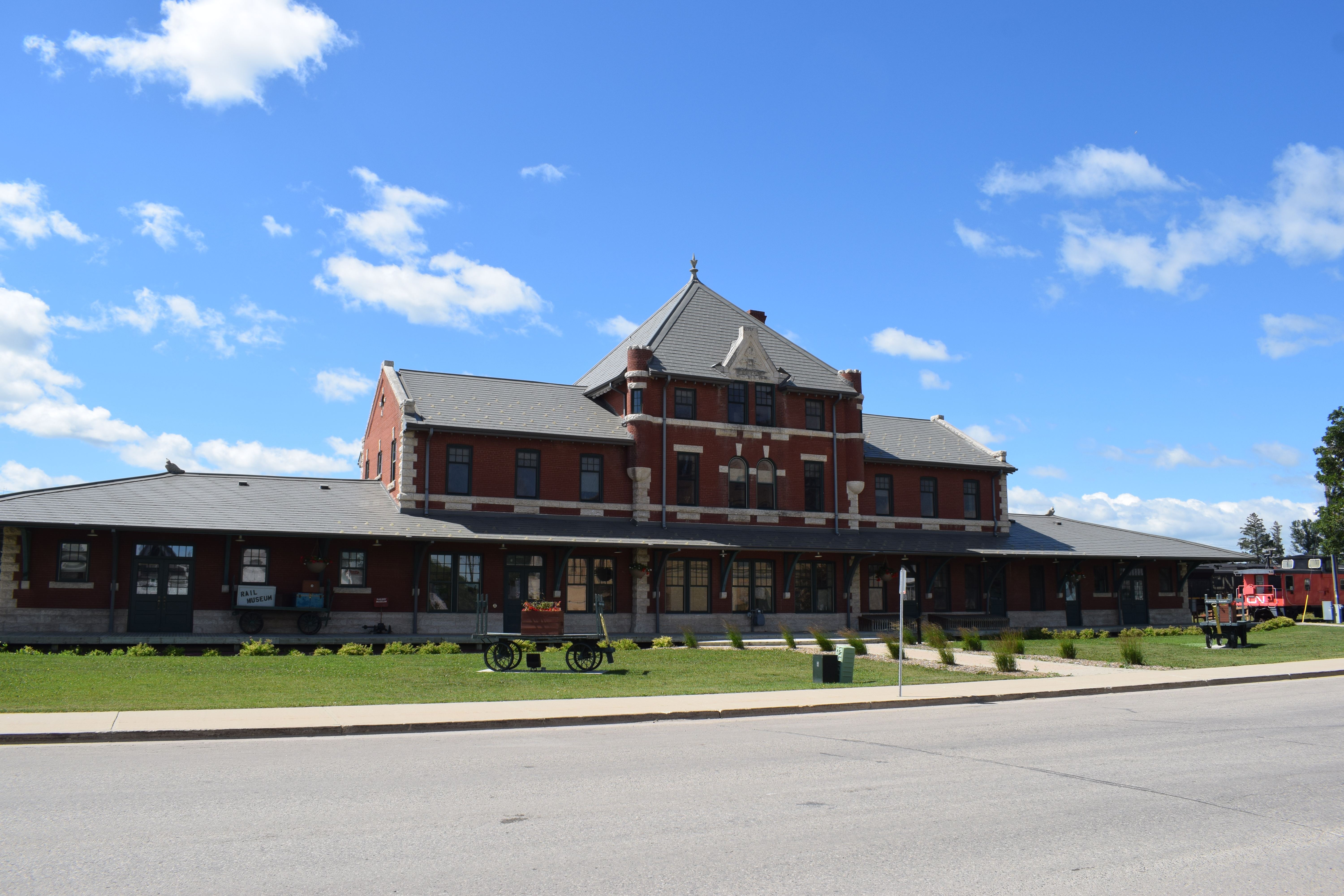 A photo of the Dauphin Railway Station, a national historic site in Dauphin, Manitoba.